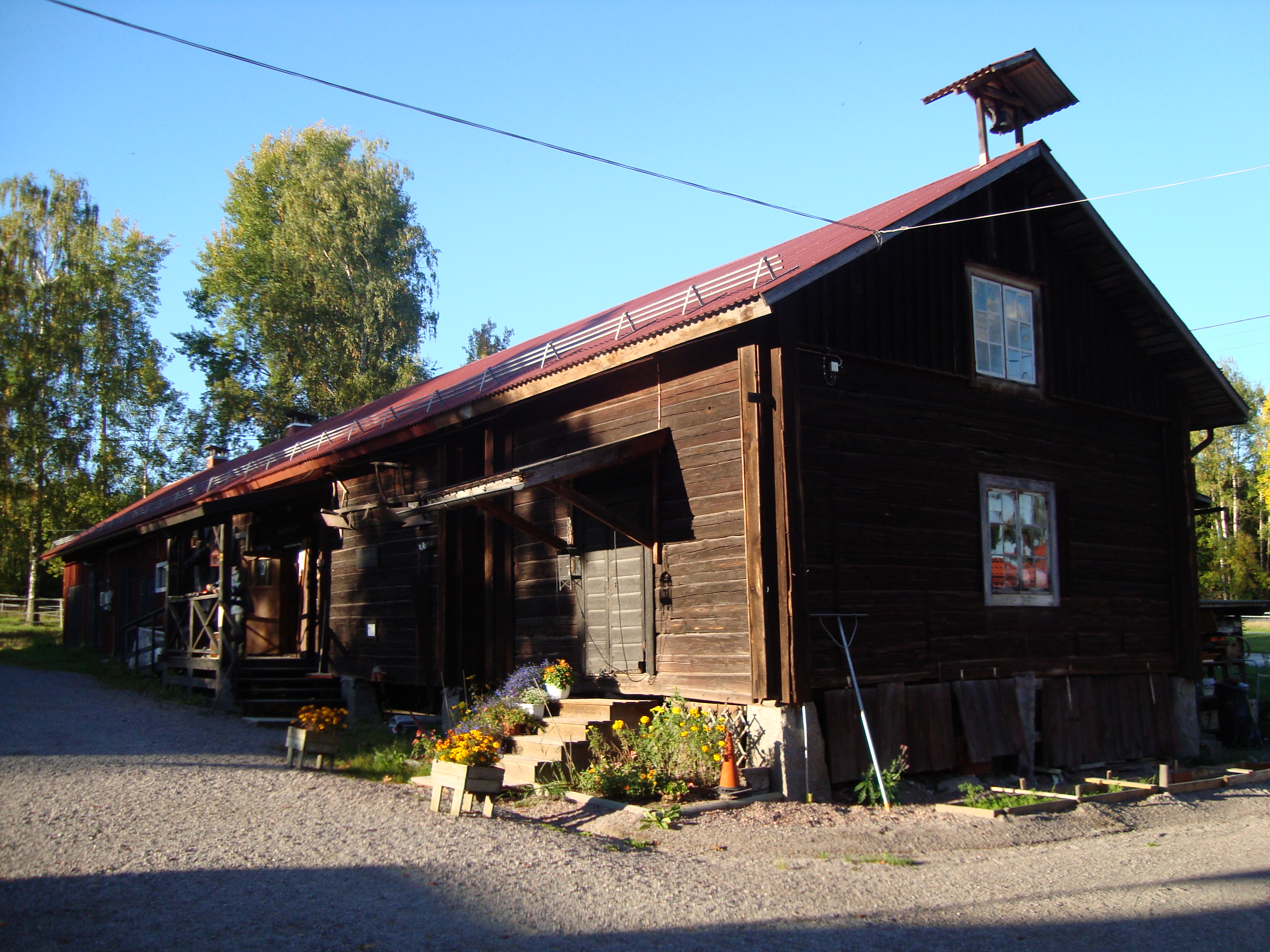 Part of Sveden estate, Falun municipality, Sweden.